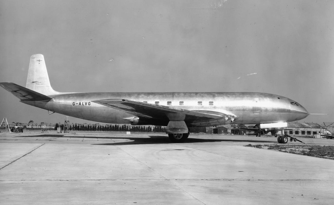 The first prototype de Havilland DH106 Comet at Hatfield.